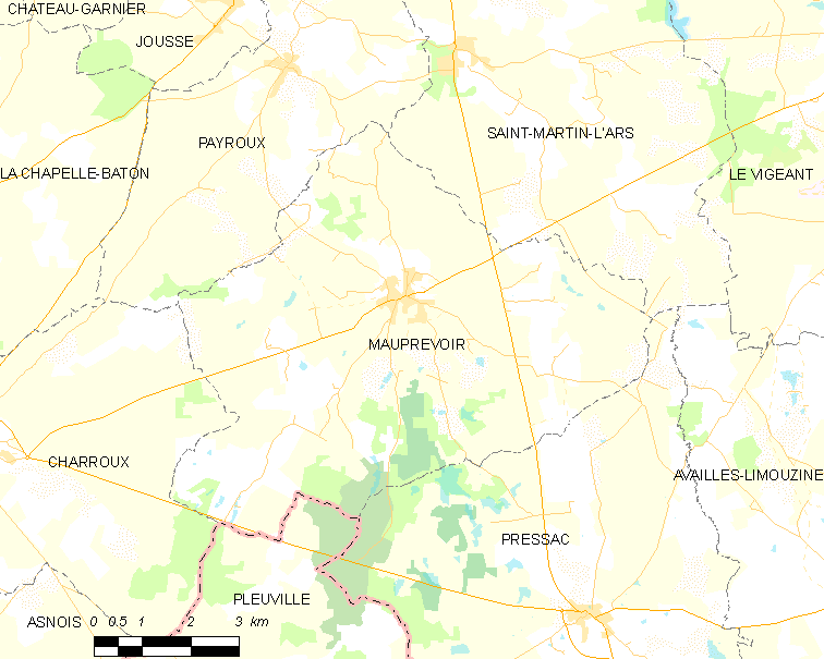 Map of French municipality Mauprévoir